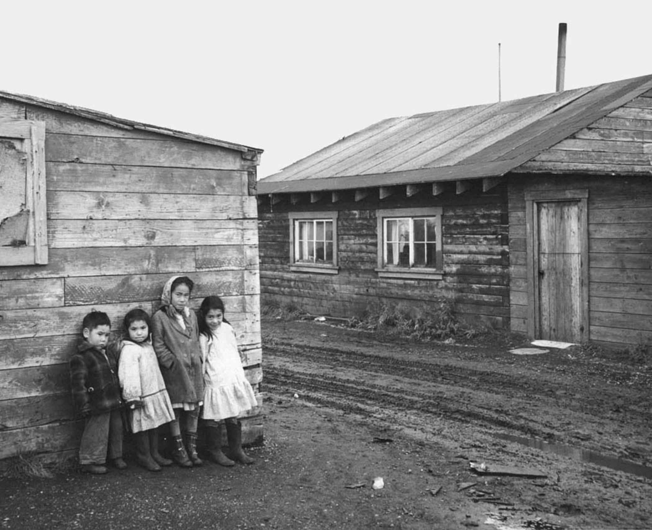 Image title: Children standing by native Alaskan homes Image from Public domain images website